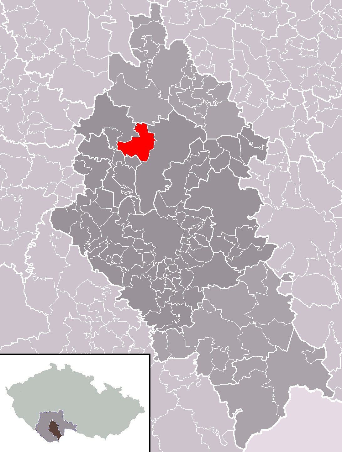 Location of Olešník municipality within České Budějovice District and administrative area of České Budějovice as a Municipality with Extended Competence.